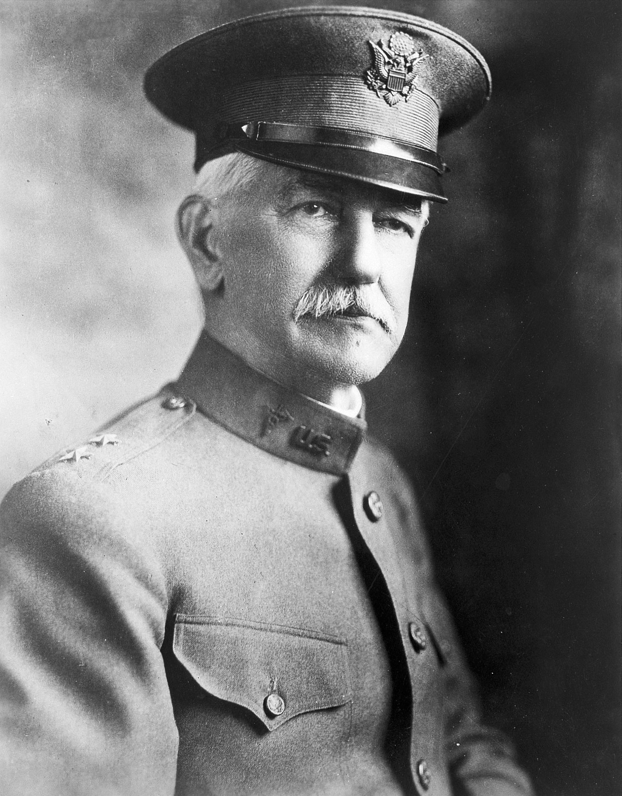 Portrait of William Crawford Gorgas (1854-1920)